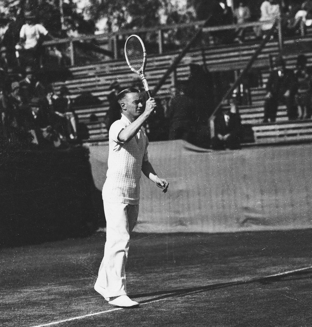 Australian tennis player Harry Hopman in Brisbane, Australia.